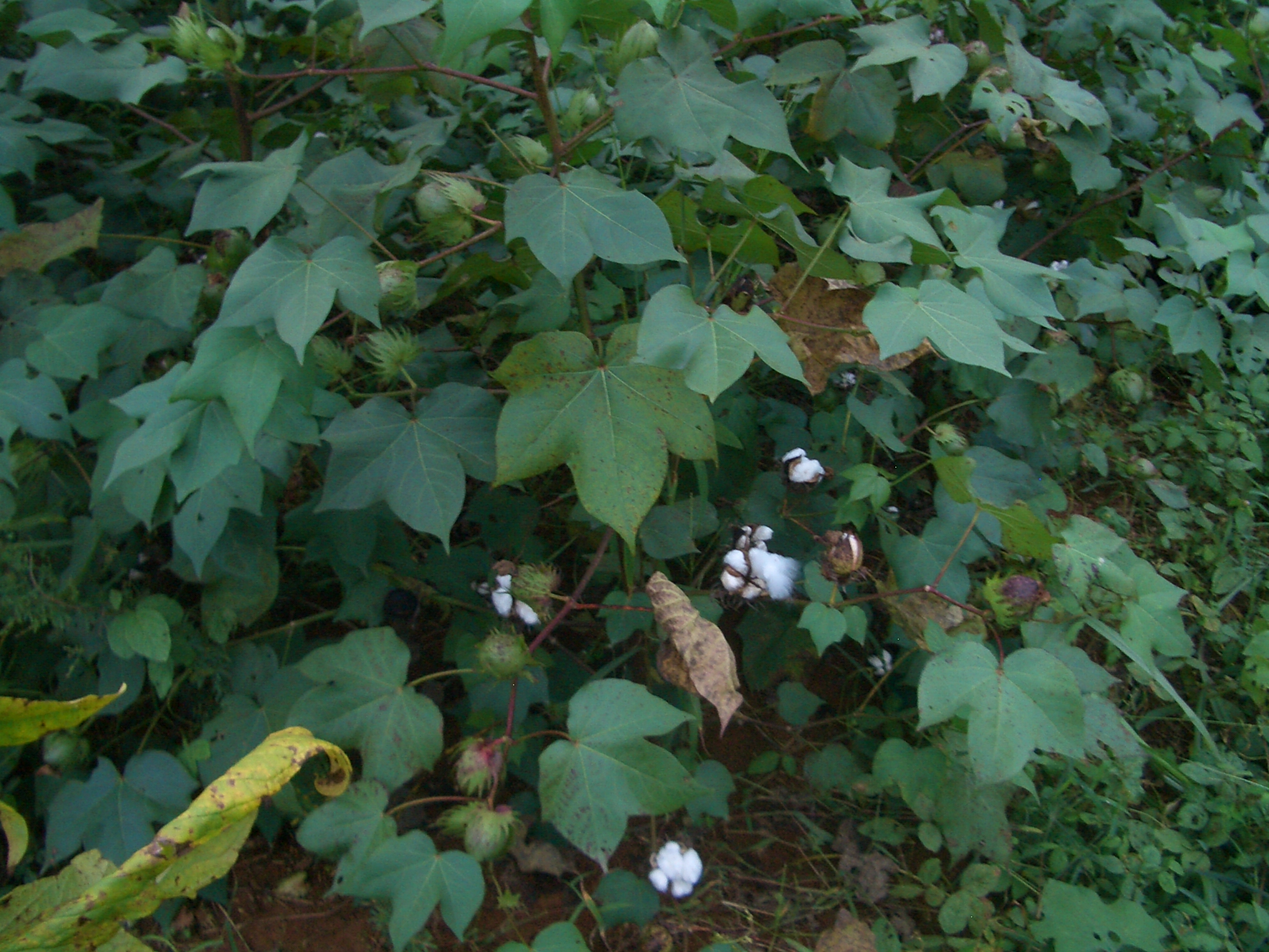 Cotton fields along Hwy G106/G316 in Yangxin County, a few km north of the Fushui (富水) River crossing (between Longgang and Futu). Cotton is usually grown in fairly small patches there, alternating with other crops.